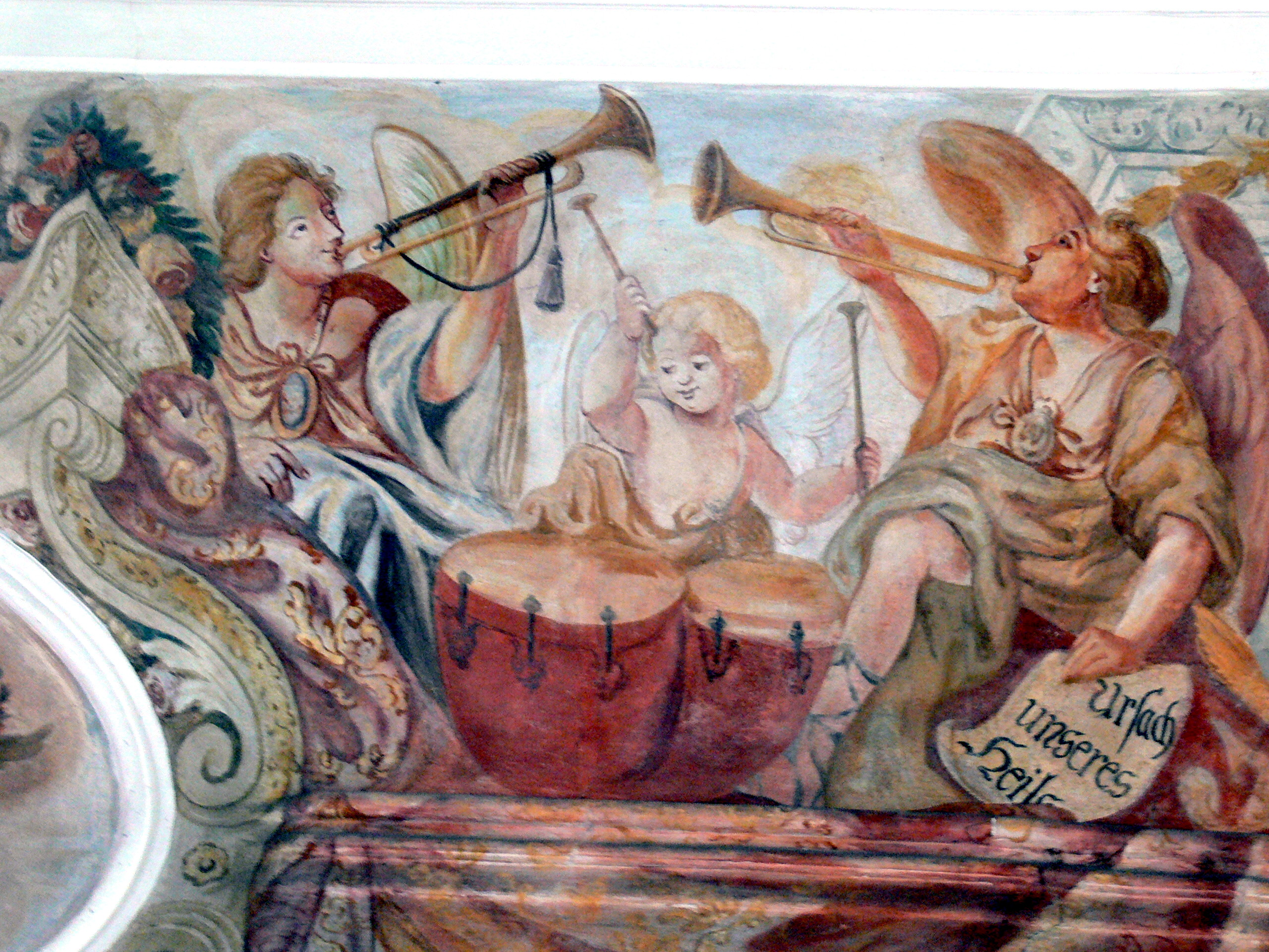 Our Lady´s chapel in Altenmarkt. Fresco showing music making angels illustrating the Lauretan litany "Mary, you cause of our salvation".